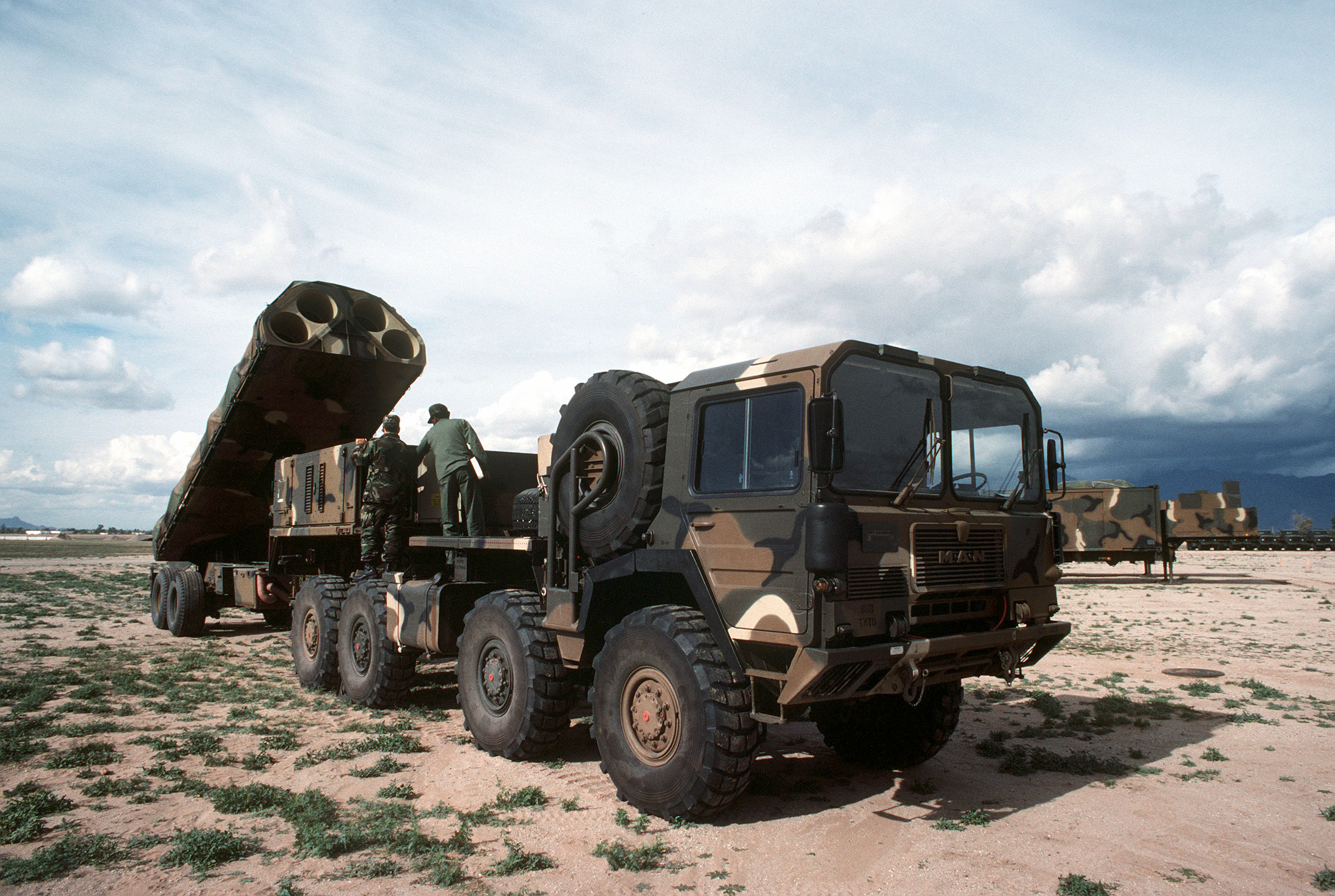 A launching unit for BGM-109G Gryphon missiles